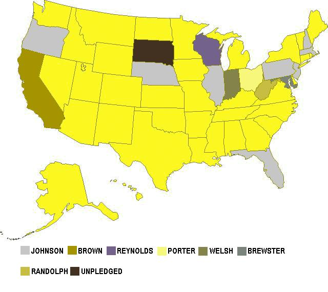 Results of the 1964 Democratic presidential primaries